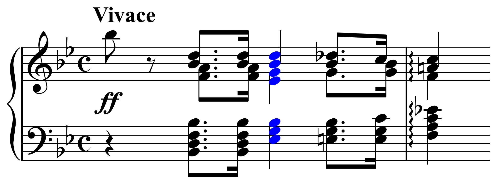 Example of dissonance in Bach's The Well-Tempered Clavier, Vol. I (Preludio XXI). The chord in question was pointed out in: Marquis, G. Welton (1964). Twentieth Century Music Idioms. Englewood Cliffs, New Jersey: Prentice-Hall, Inc. Presumably Marquis is the source of the tempo, dynamic, and, in the second measure, arpeggiation.